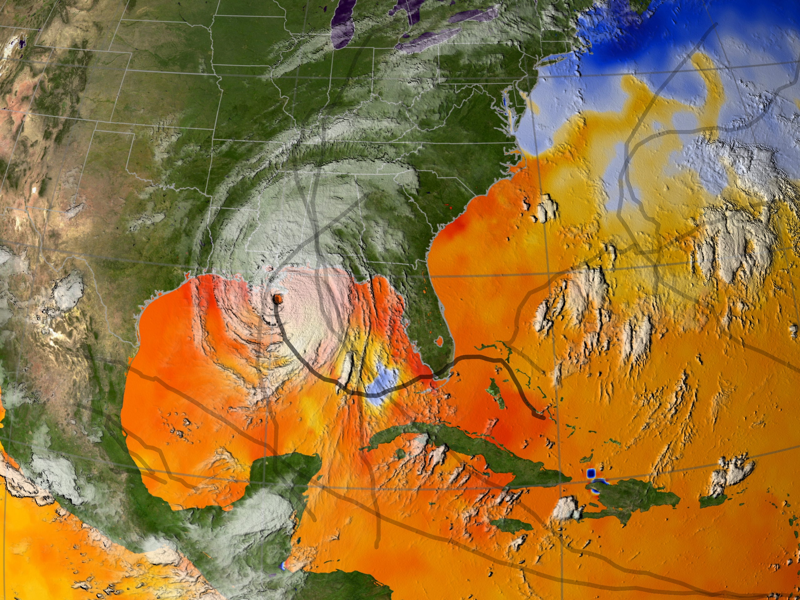 Hurricane Katrina: Sea surface temperature with clouds and tracks on Aug 29, 2005.